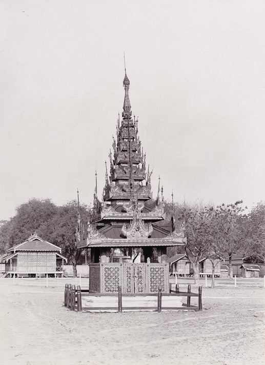 Photograph of Medawgyi’s Tomb at Mandalay in Burma (Myanmar) from the Archaeological Survey of India Collections: Burma Circle, 1903-07. The photograph was taken in 1903 under the direction of Taw Sein Ko, the Superintendent of the Archaeological Survey of Burma at the time. The tomb contains the grave of the mother (medaw) of Thibaw (reigned 1878-1885), the last king of the Konbaung Dynasty (1752-1885) and the last Burmese monarch. It stood in a group of mausoleums inside the square citadel of the Royal Palace (Nandaw), to the north of the East Gate. In his ‘Guide to the Mandalay Palace’ (Rangoon, 1925), a later Superintendent of the Burma Archaeological Survey, Charles Duroiselle, names the grave's occupant as “the Laungshé Queen; she was the daughter of the Monai-bô-hmū Prince; she was a queen of inferior rank, but the mother of Thibaw, the last king of the dynasty; she died in 1870.” The tomb takes the form of a tiered spire known as a pyatthat, enclosed with lattice panels around its base. The pyatthat is a characteristic symbolic feature of Burmese royal and religious architecture which demarcates sacred space. Its eaves are decorated with ornate and flamboyant wood carving, a traditional form of applied decoration in which Burmese artisans were highly skilled.